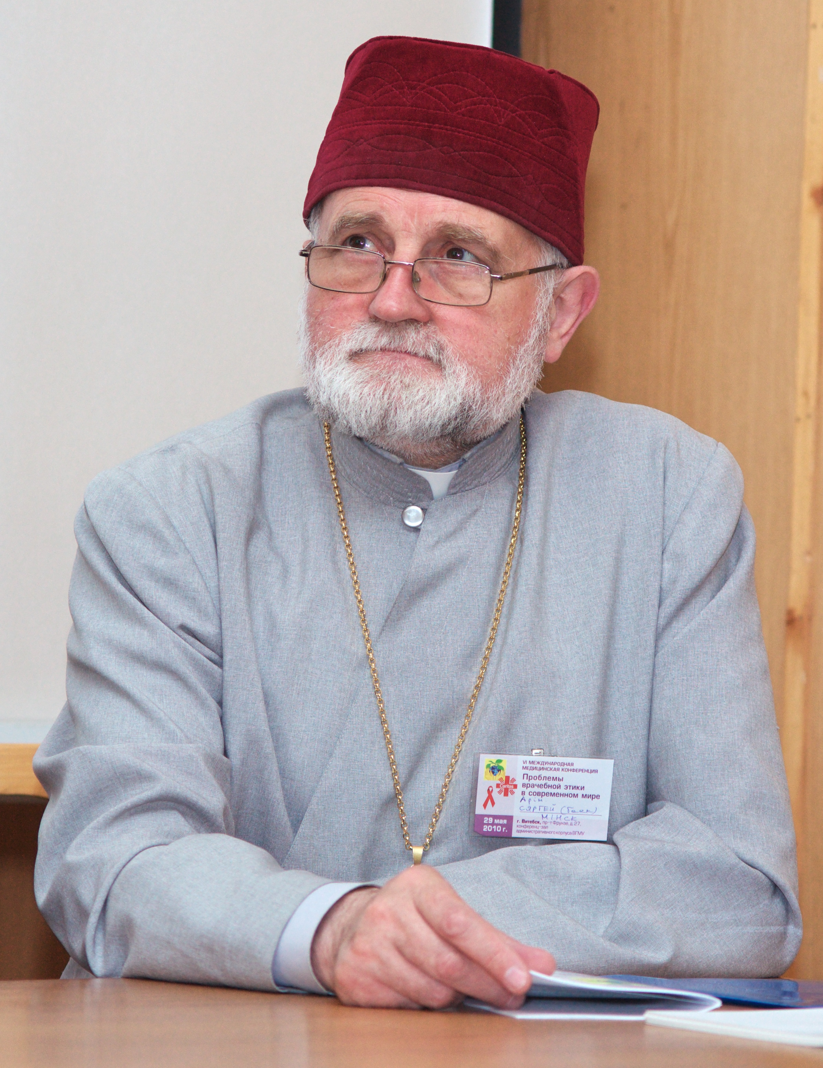 Siargiej Gajek